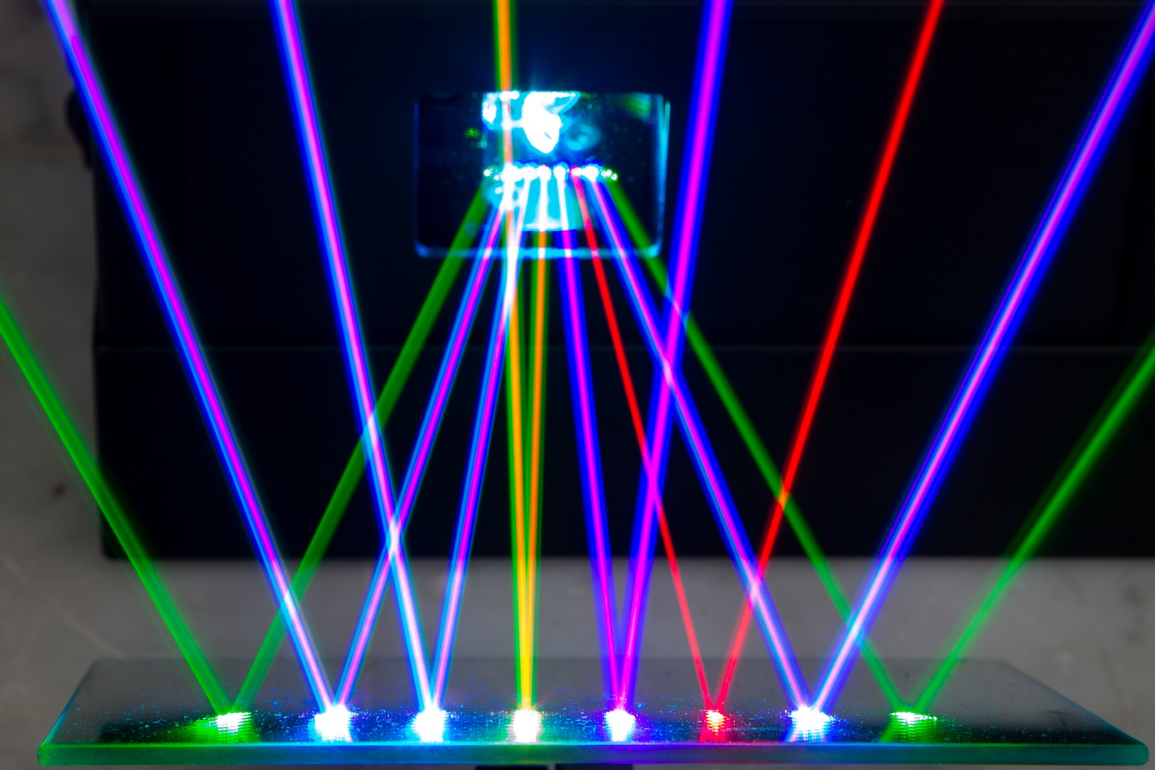 Genesis controller laser harp beam output